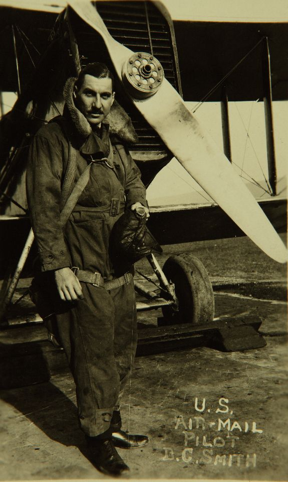 Dean Cullom Smith airmail pilot